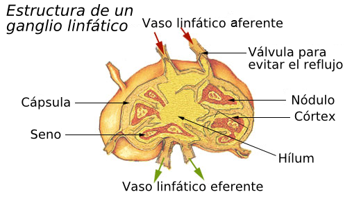 Lymph node